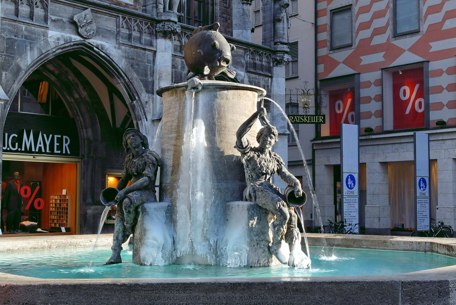 Munich, fountain called "Fischbrunnen" on "Marienplatz" in winter This is a photograph of an architectural monument.